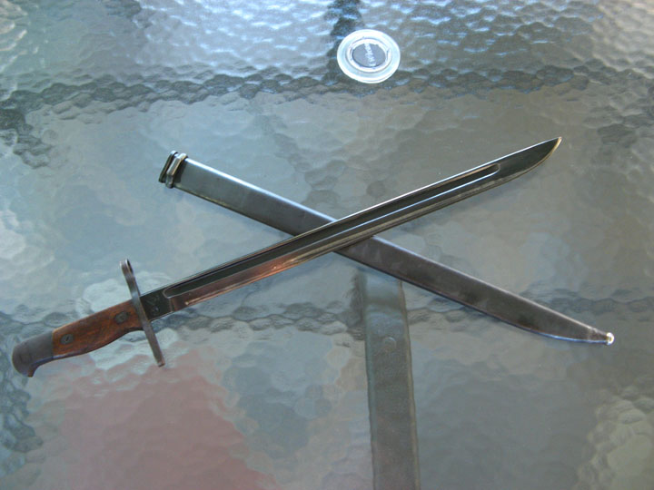 This is a full view of the Type 99 Arisaka's bayonet